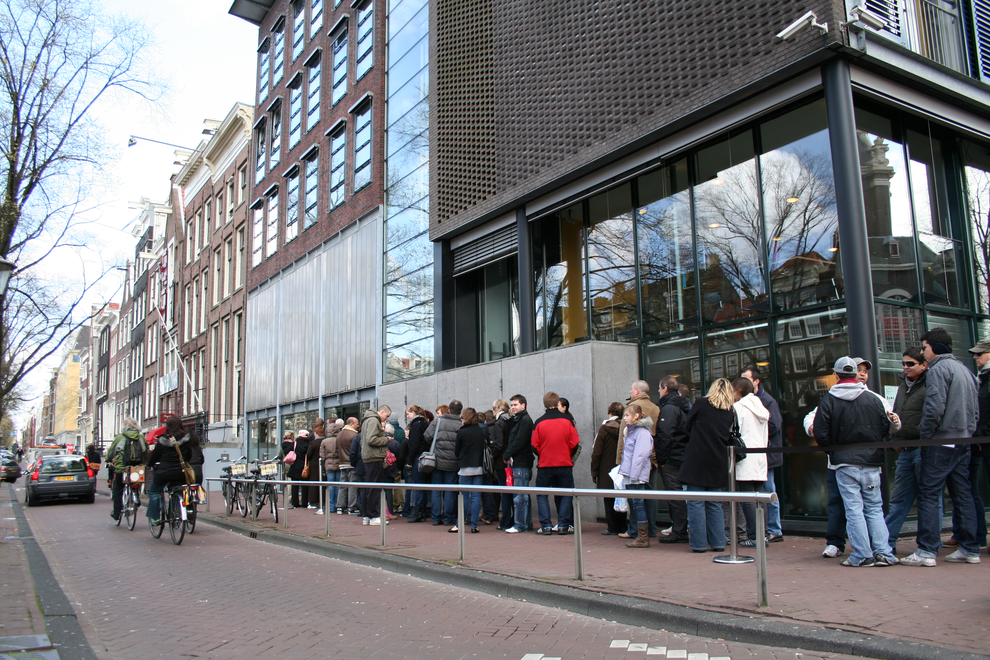 A photograph taken of the Anne Frank Museum in Amsterdam.